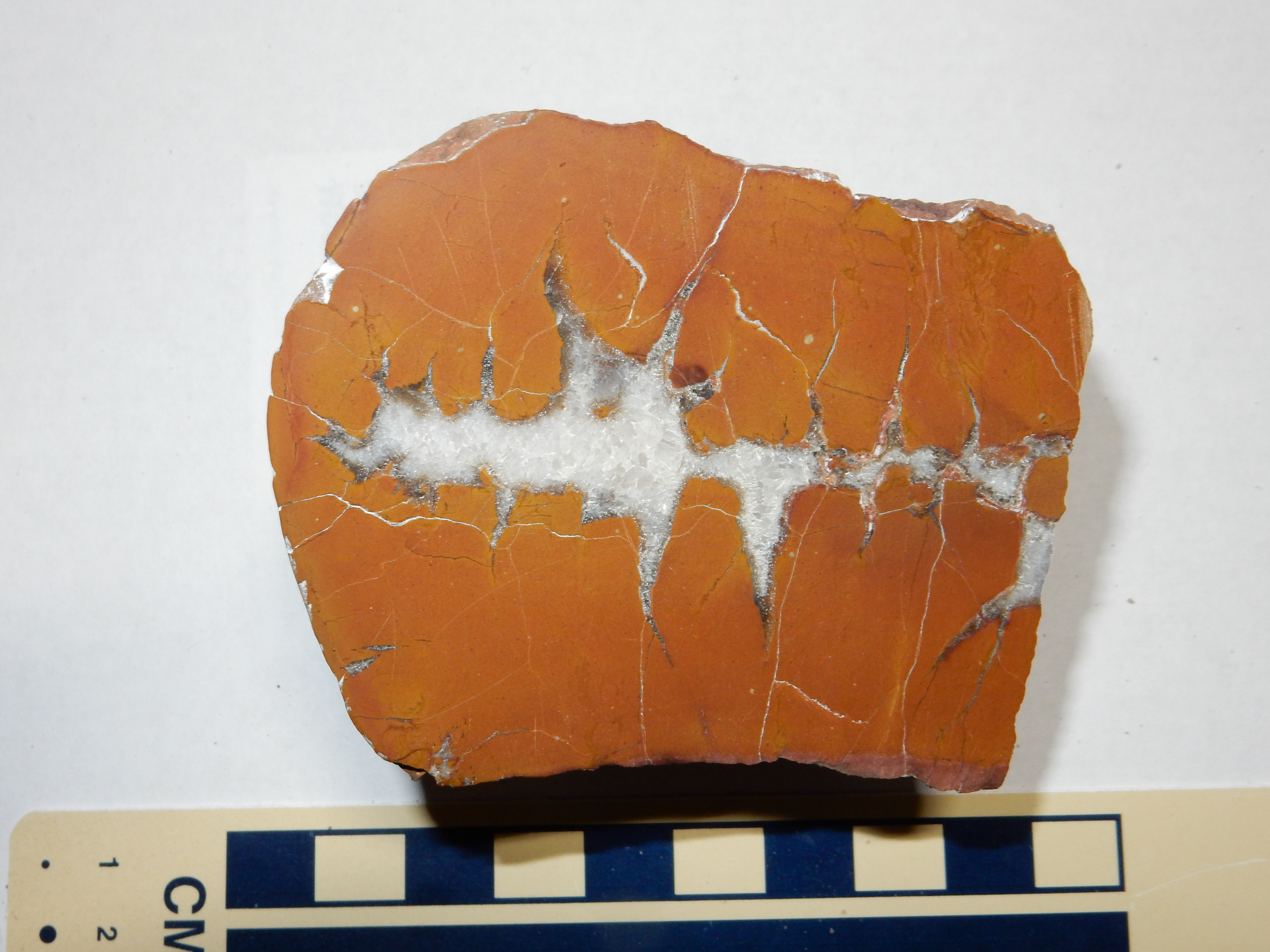 This image shows a septarian nodule from the Triassic Salitral Formation, Nacimiento Mine, New Mexico, United States. The nodule has been cut in half and polished. The calcite veins show blood-red fluorescence under a shortwave UV lamp.